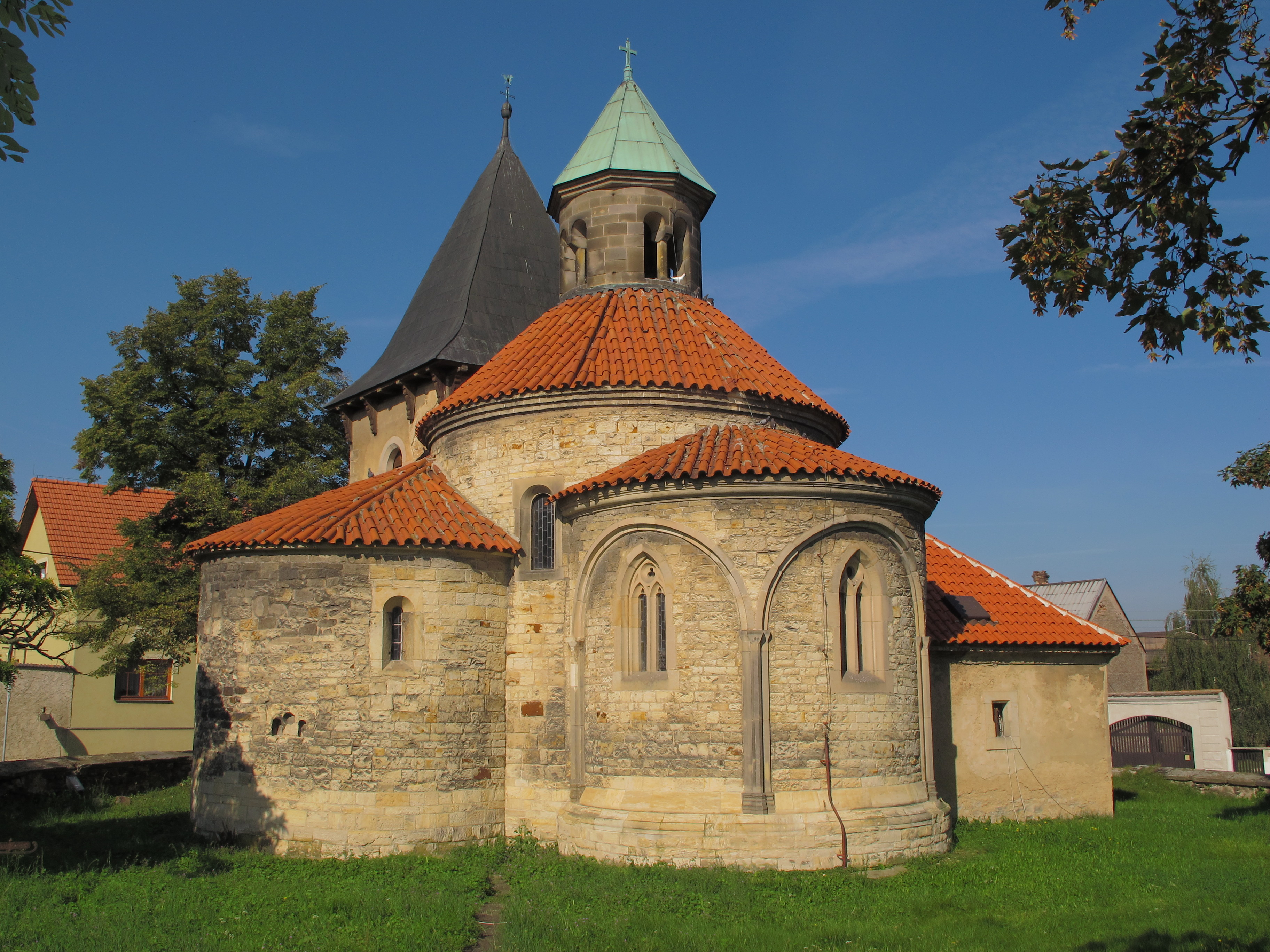 from the east